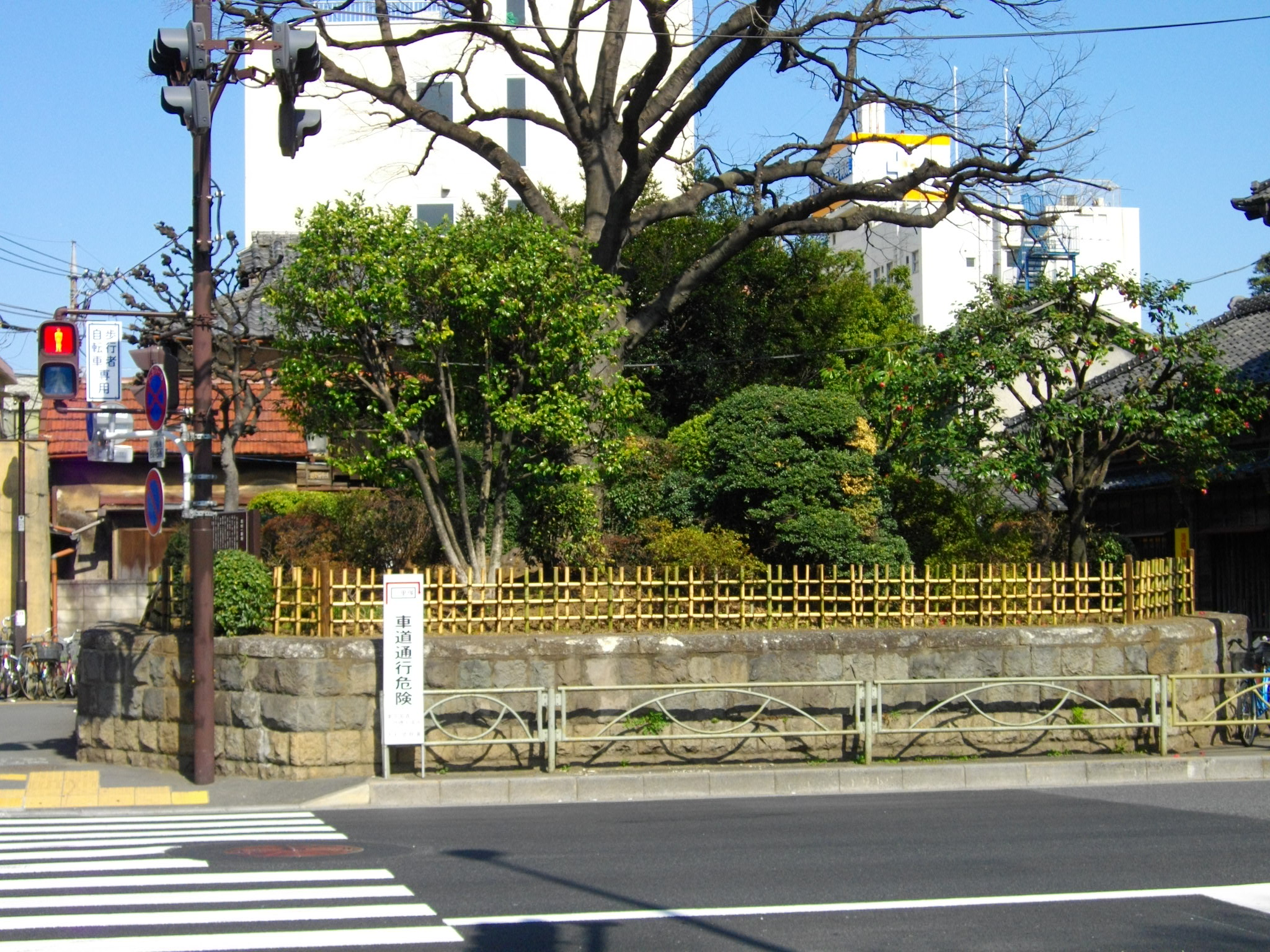 Shimura Ichiri-zuka (east)